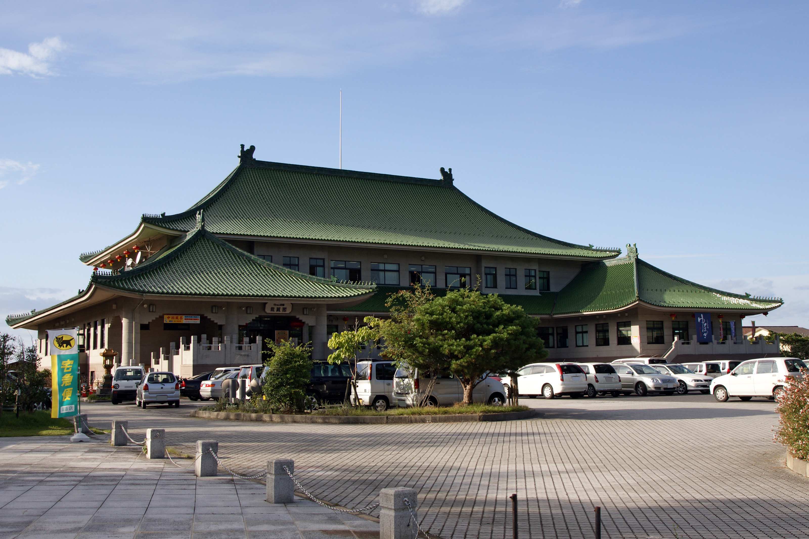 Ryuhoukaku of Togo Onsen in Yurihama, Tottori prefecture, Japan